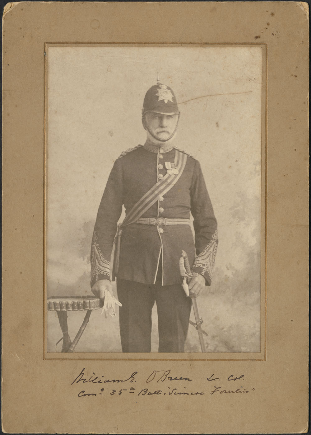 Lt-Col William O'Brien, Commander 35th Battalion, "Simcoe Foresters", ca. 1900